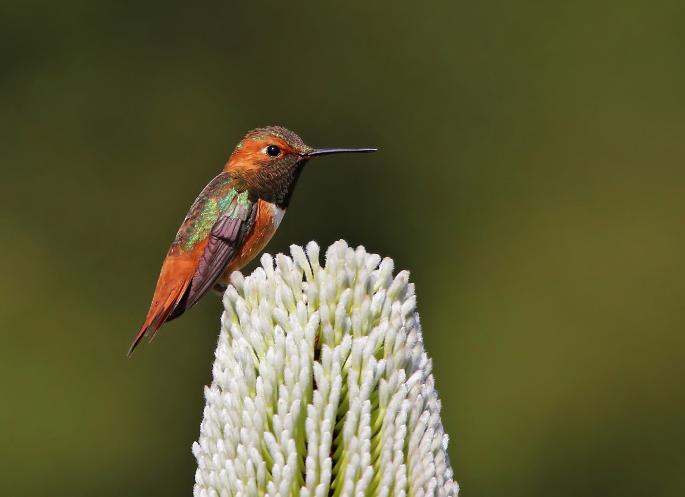 A male Allen's Hummingbird guards his flower patch near Santa Cruz, CA.